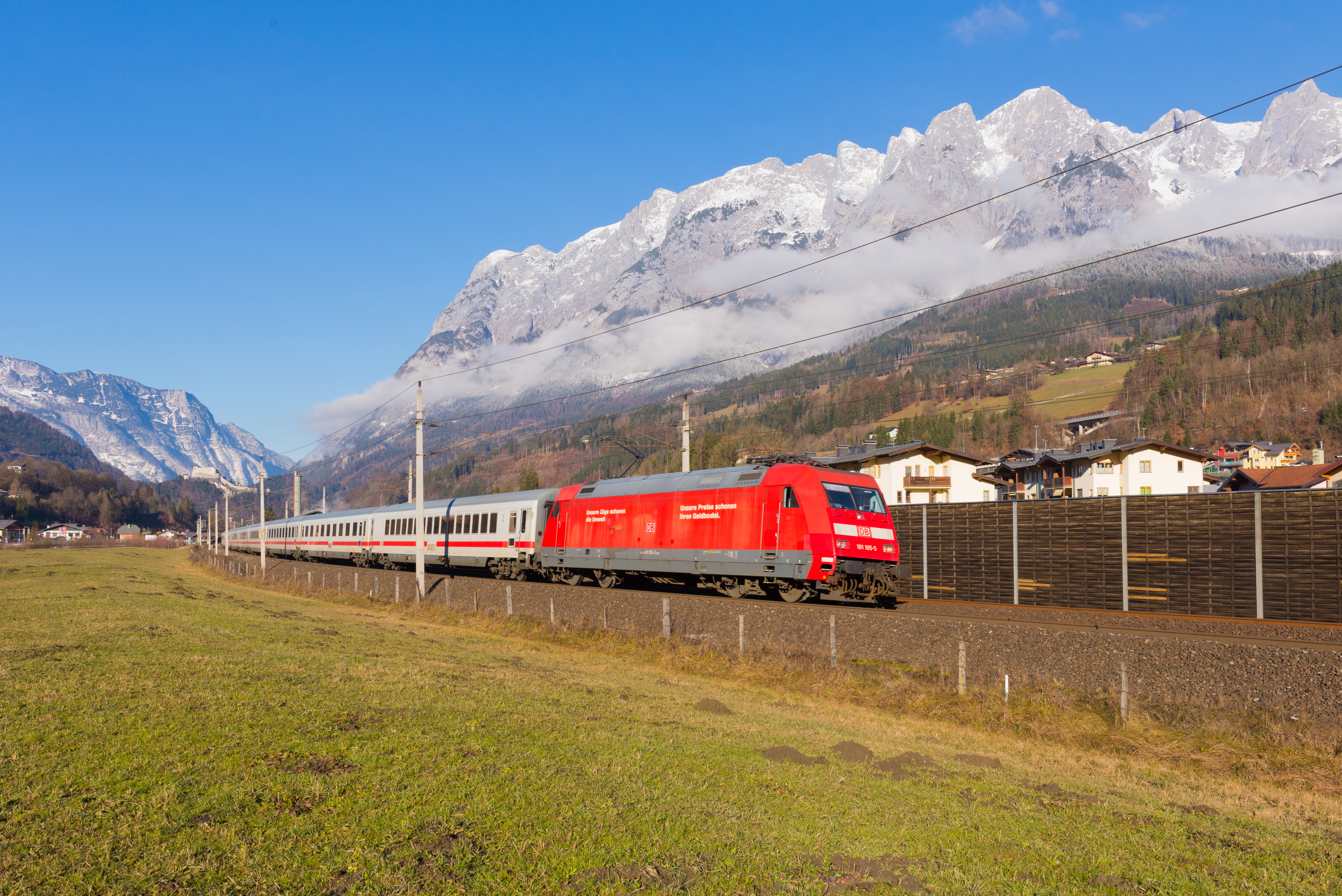 DB 101-105 passes Pfarrwerfen with EC 217. The Tennengebirge in the background saw heavy snowfall in the night, that had reached the valley of the river Salzach. The picture was taken on the 13th of December 2016.